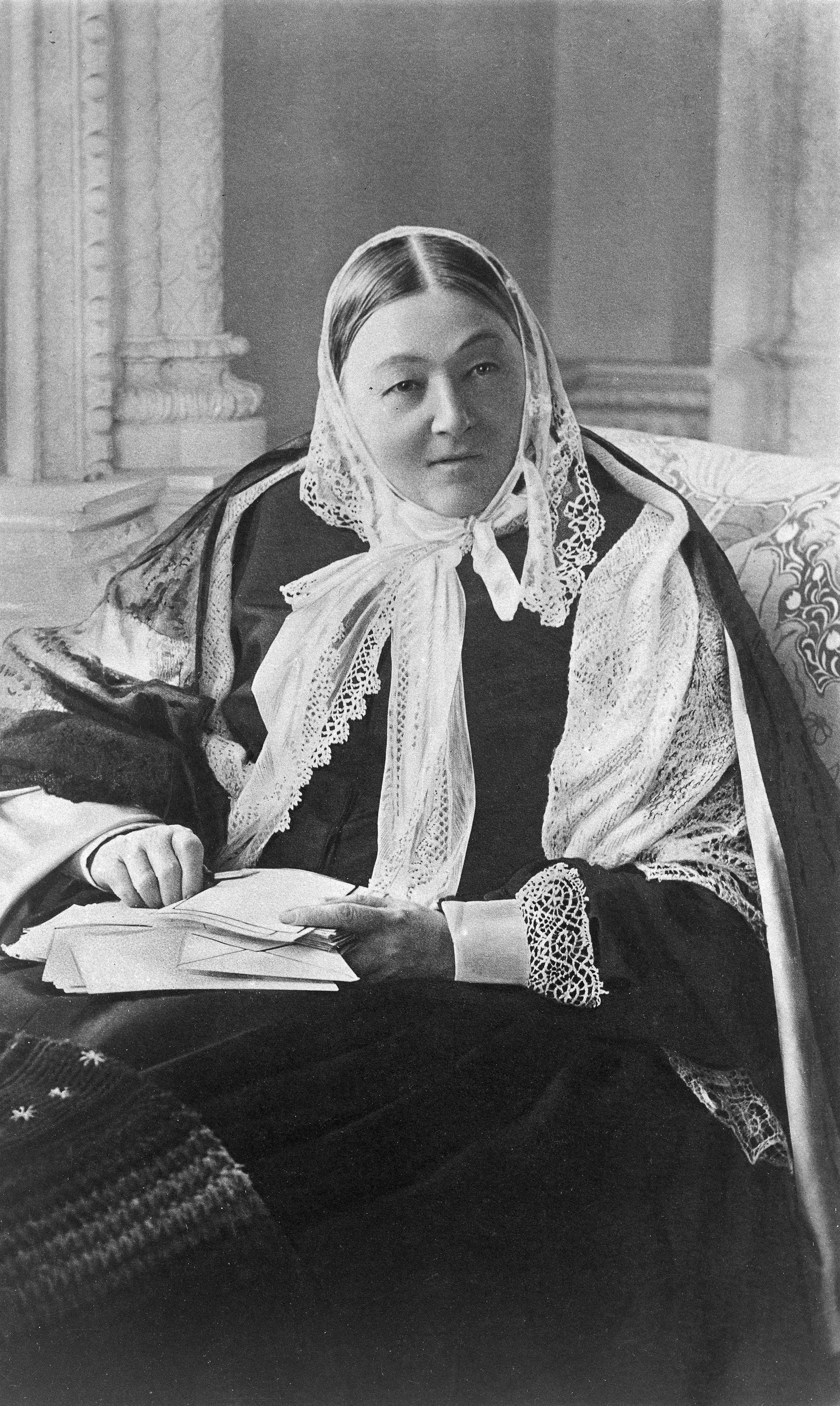 Portrait of Florence Nightingale. Wellcome Images Keywords: Florence Nightingale